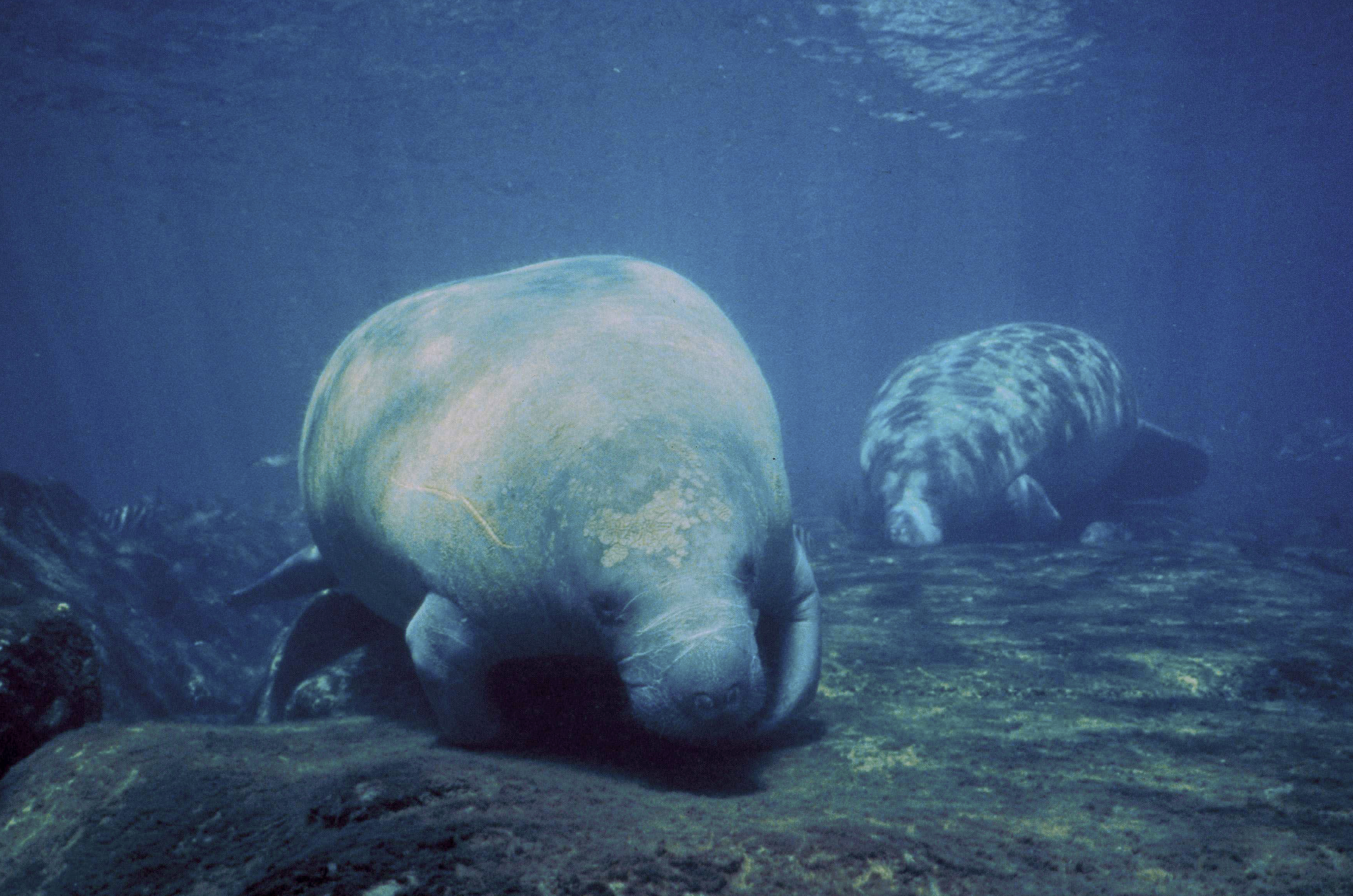 Image title: Manatee marine mammals underwater Image from Public domain images website